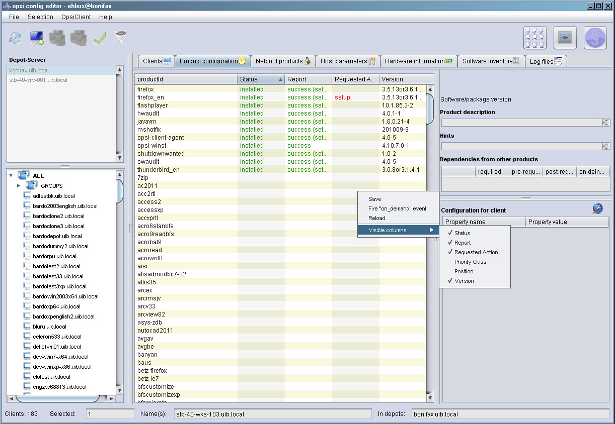 opsi Management Interface screenshot